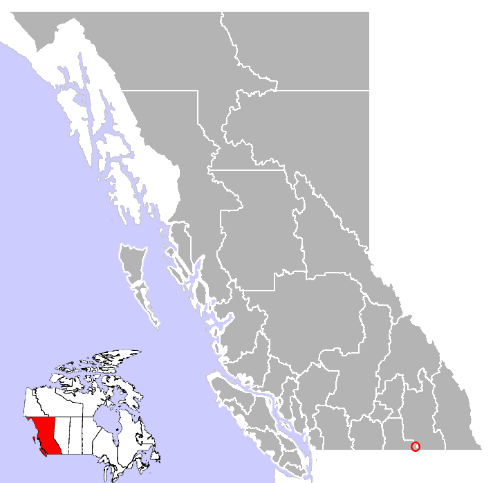 Trail, British Columbia location.